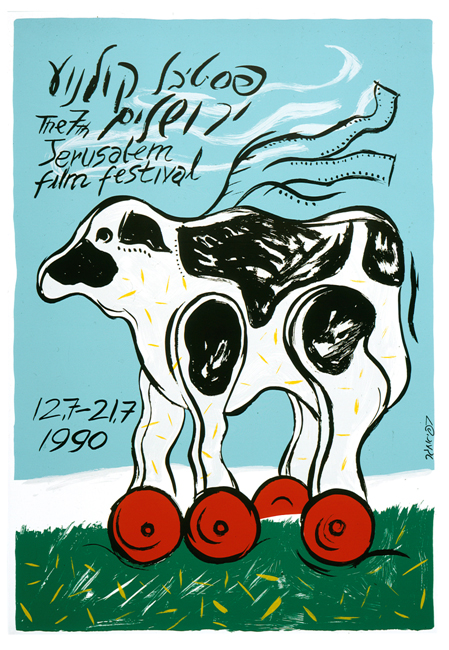 The 7th Jerusalem Film Festival, 1990